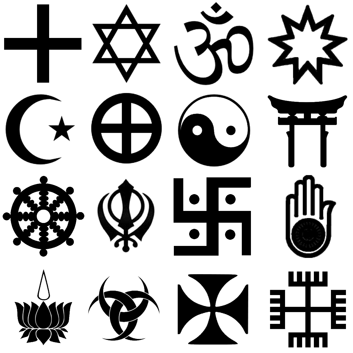 From left to right: 1st Row (Chrześcijaństwo, Christianity) - Krzyż, Christian cross; (Judaism, Judaism) - Gwiazda Dawida, Star of David; (Hinduizm, Hinduism) - Omkar (Aum) Aum; Bahá'í star 2nd Row (Islam, Islam - w rzeczywistości symbol Kalifatu) - Półksiężyc, Crescent; (Religie pierwotne, etniczne, Fetishism,) - Krzyż słoneczny, Sun cross (Gnosticism); (Chińska filozofia i mistyka) - Yin-yang (Taoism); Shinto - Torii 3rd Row (Buddyzm, Buddhism) - Koło Dharmy, Dharmacakra; (Sikhizm, Sikhism) - Khanda, Khanda; (Dżinizm, Jainism) - Swastyka, Swastika. Jain Ahimsa Symbol 4th Row Ayyavazhi Triple Goddess (or Diane de Poitiers) Cross pattée Ręce Boga (Slavic neopaganism)